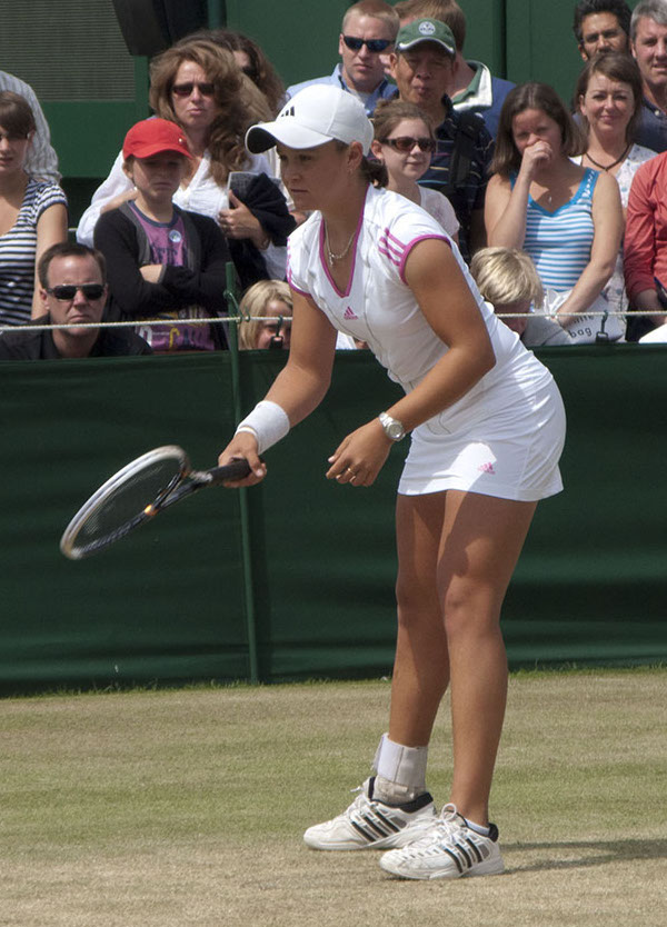 Ashleigh Barty, Wimbledon 2011 girls' singles champion, playing on Wimbledon court 10 on June 30, 2011, where she defeated Madison Keys (USA) 6-3, 6-7(5), 6-4 in the third round match.